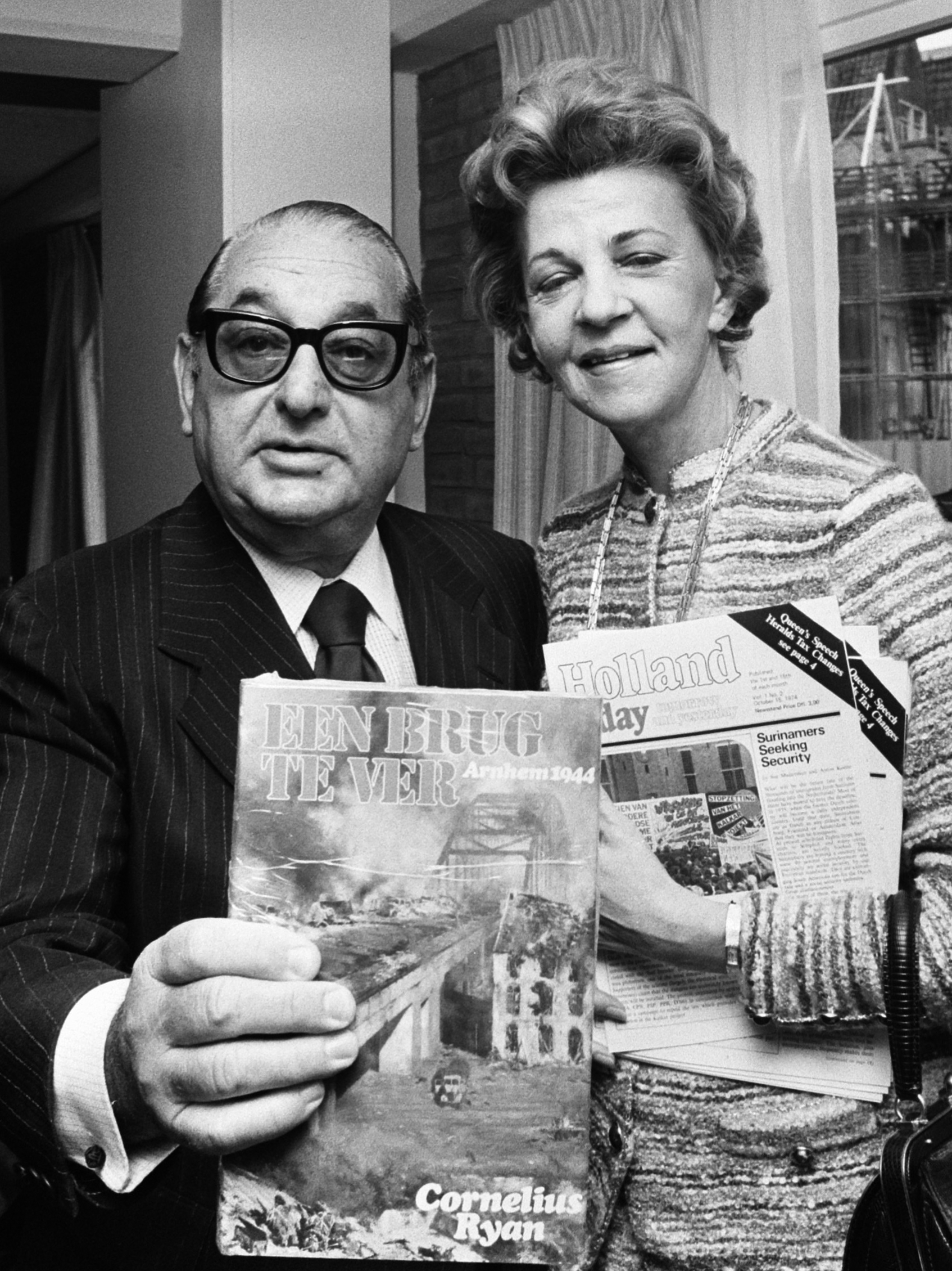 Film producer Joseph E. Levine and Kathryn Ryan (widow of author Cornelius Ryan) at a press conference for the film "A Bridge Too Far"